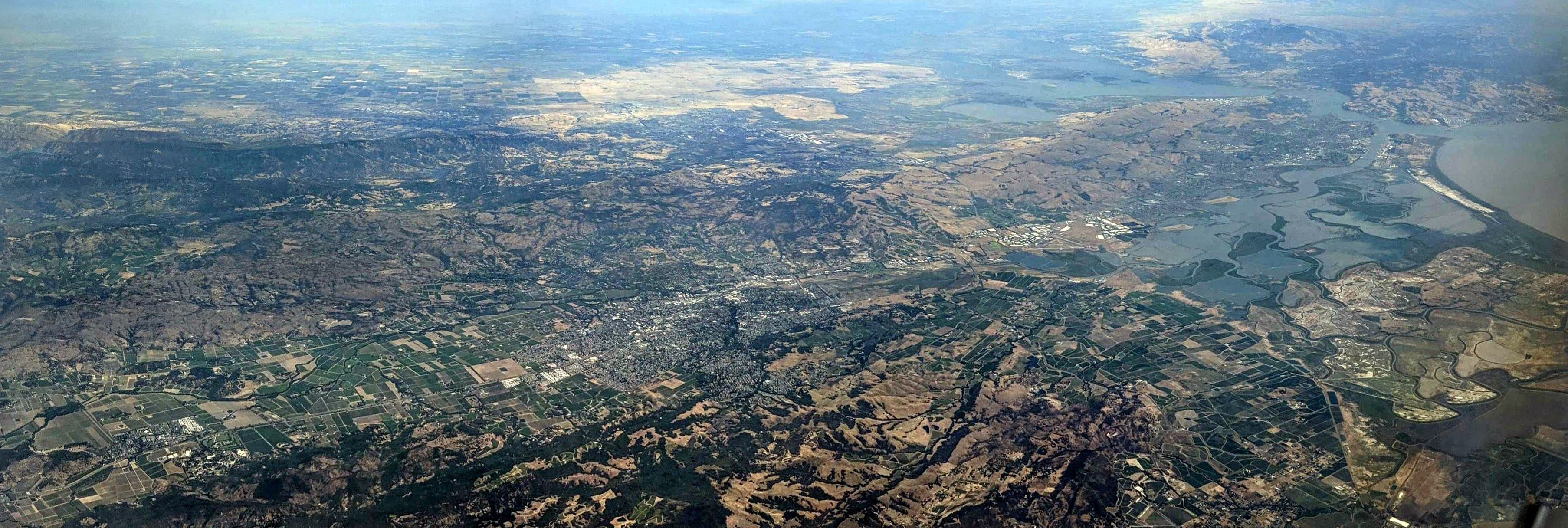 Aerial panoramic view of the lower Napa Valley, from Yountville to San Pablo Bay, with Napa at center